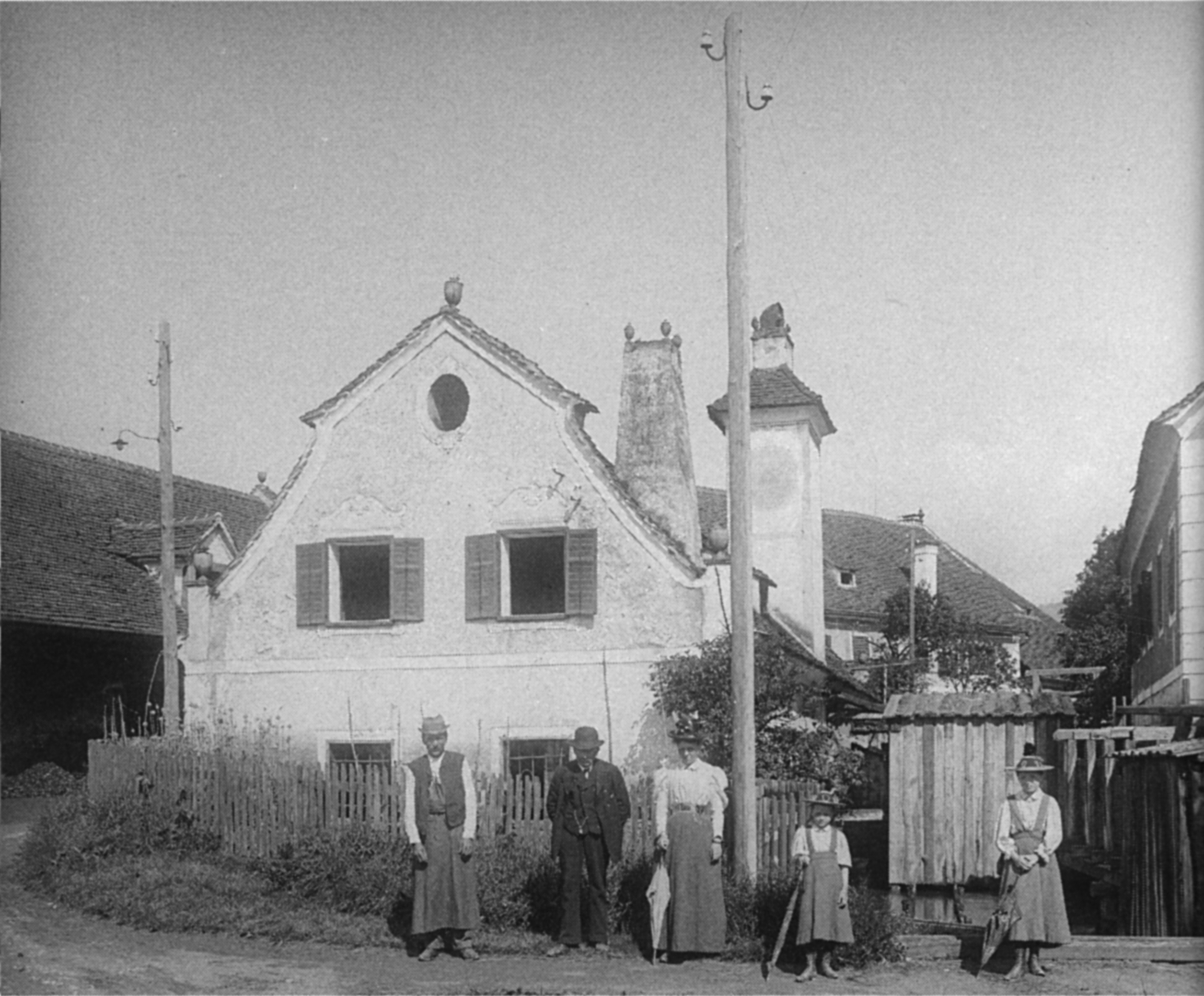 Petschar, Friedlmeier, Steiermark in alten Fotografien, Ueberreuther Verlag Wien. Scanprojekt Community Projektbudget 2012 This scan or this PDF-file was created within the GLAM-project Bookscanning, supported by Wikimedia Germany and Wikimedia Austria as a part of the community-project to capture books, documents and pictures which are not eligible to copyright or for which the copyright has expired. This document describes or depicts an object which is located in Austria today. Texts are written German language. Send requests for uncompressed scans to Hubertl. This work is in the public domain in its country of origin and other countries and areas where the copyright term is the author's life plus 100 years or less. You must also include a United States public domain tag to indicate why this work is in the public domain in the United States. This file has been identified as being free of known restrictions under copyright law, including all related and neighboring rights.